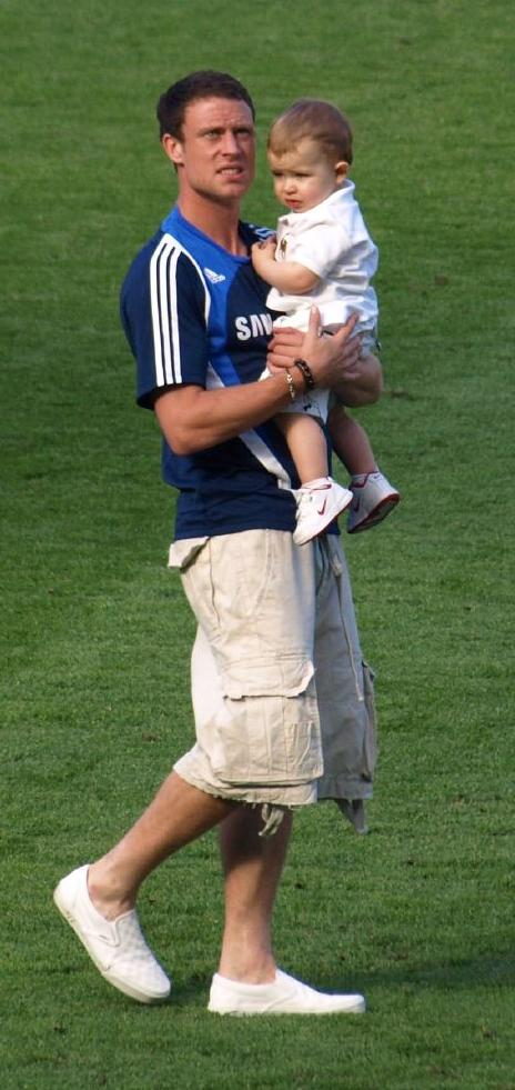 Wayne Bridge, English footballer